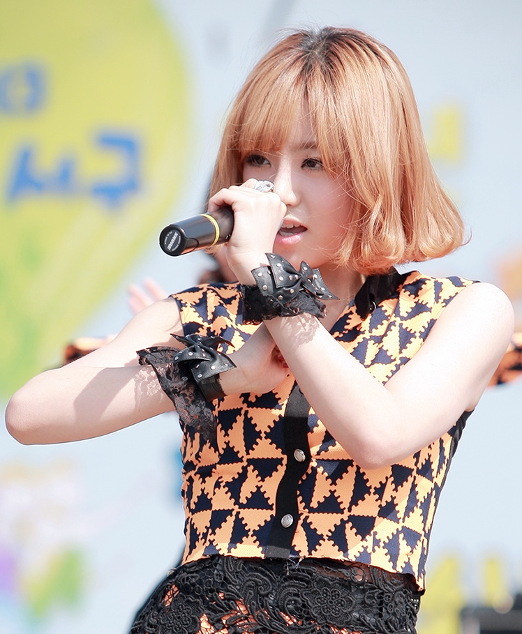 EunB in Incheon Festival Ara on May 13, 2013.